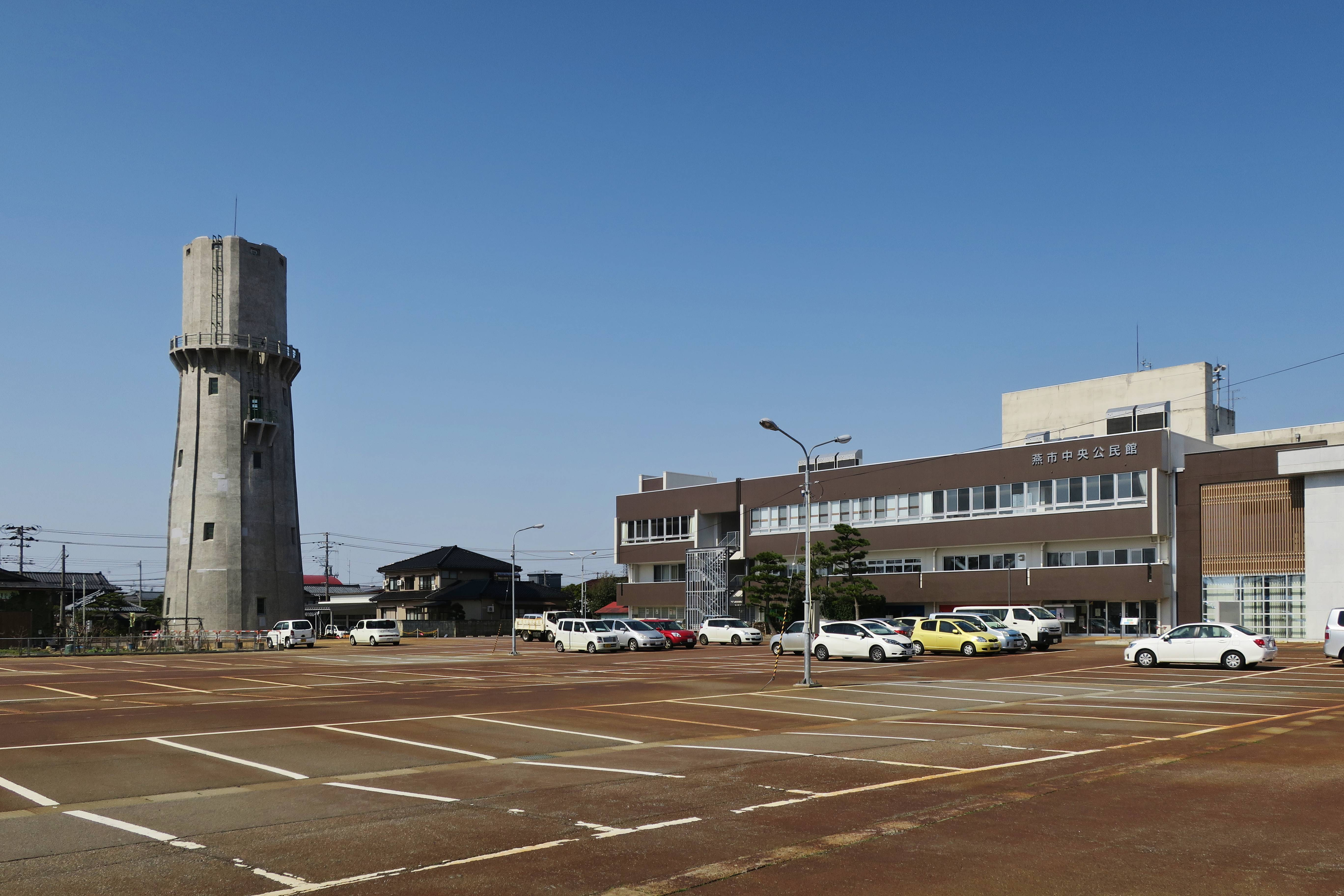 Tsubame city chuo kominkan.